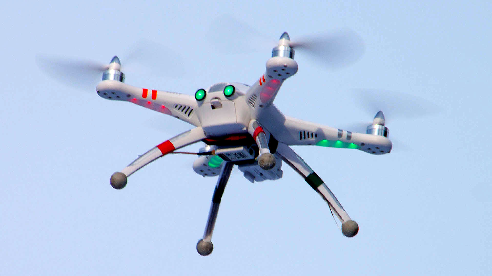 This is an example of a camera-equipped radio controlled quadcopter. This is a product of the Chinese company Walkera and it was introduced in 2013. It is battery operated and includes a HD video recorder.